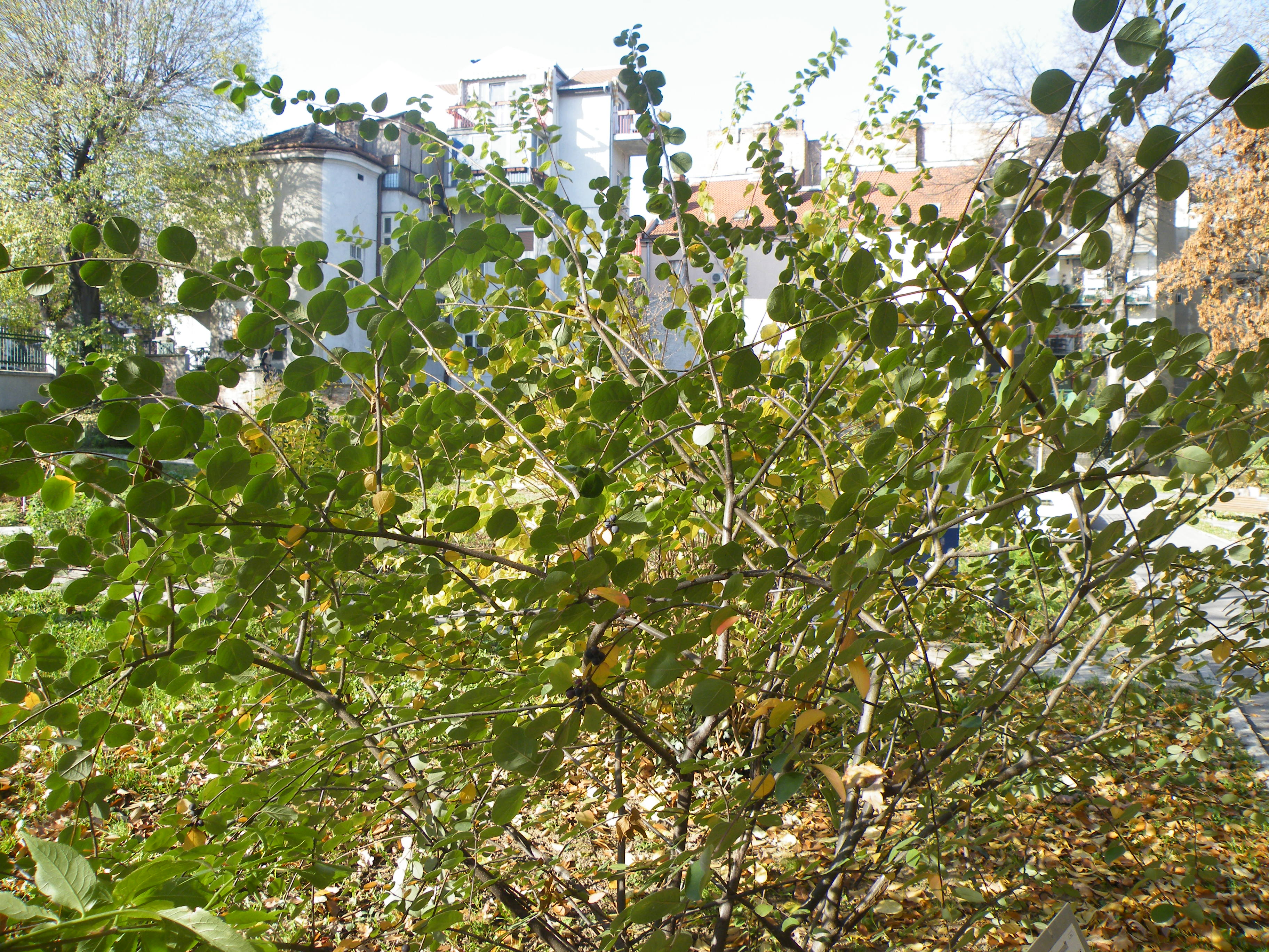 Cotoneaster s a genus of flowering plants in the rose family, Rosaceae, native to the Palaearctic region (temperate Asia, Europe, north Africa), with a strong concentration of diversity in the genus in the mountains of southwestern China and the Himalayas. This media file is produced by Wikipedian in Residence in Botanical Garden Jevremovac in 2015.